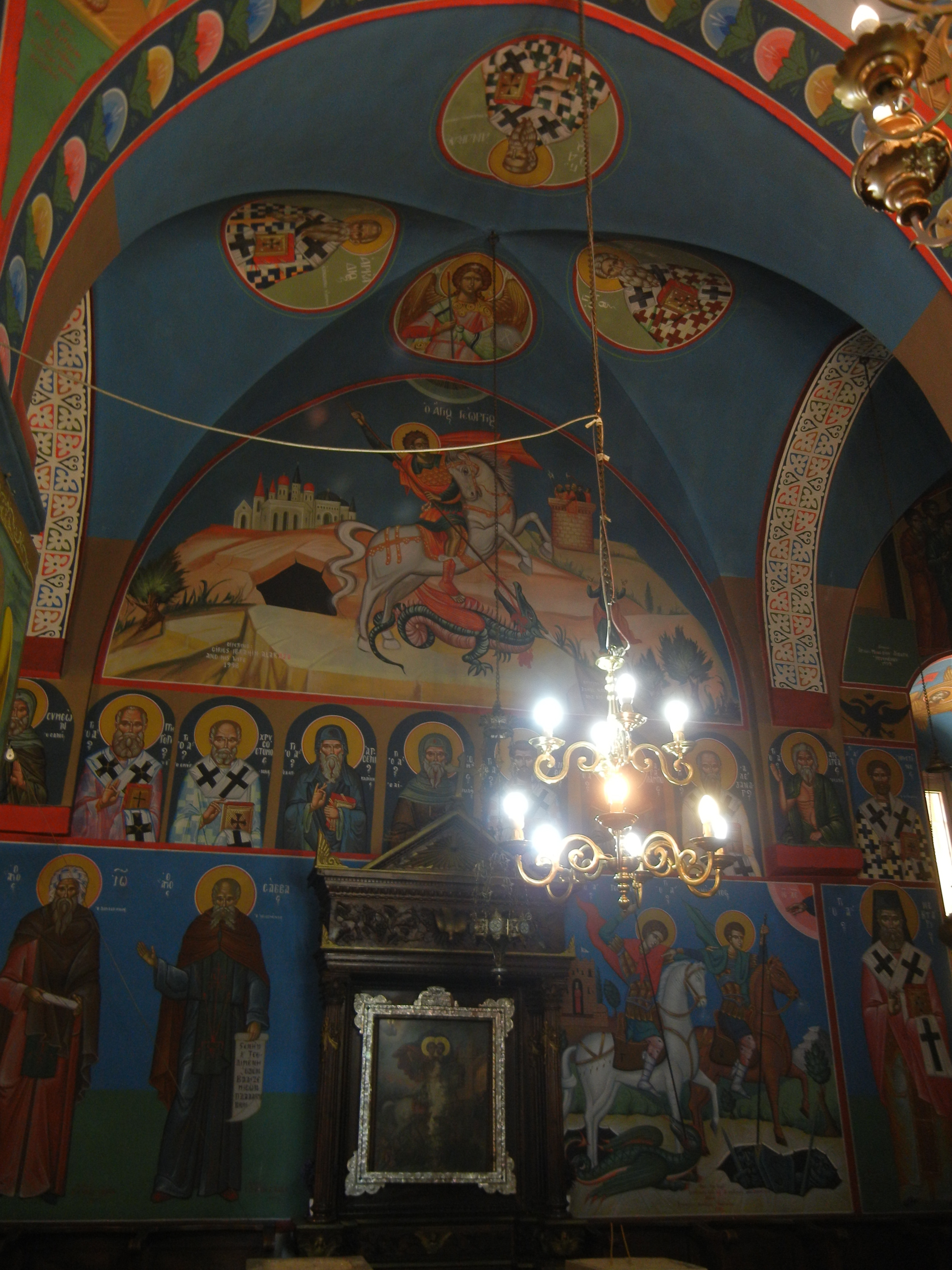 The Church of St.George in the town of Khadir in the West Bank, Historical Palestine